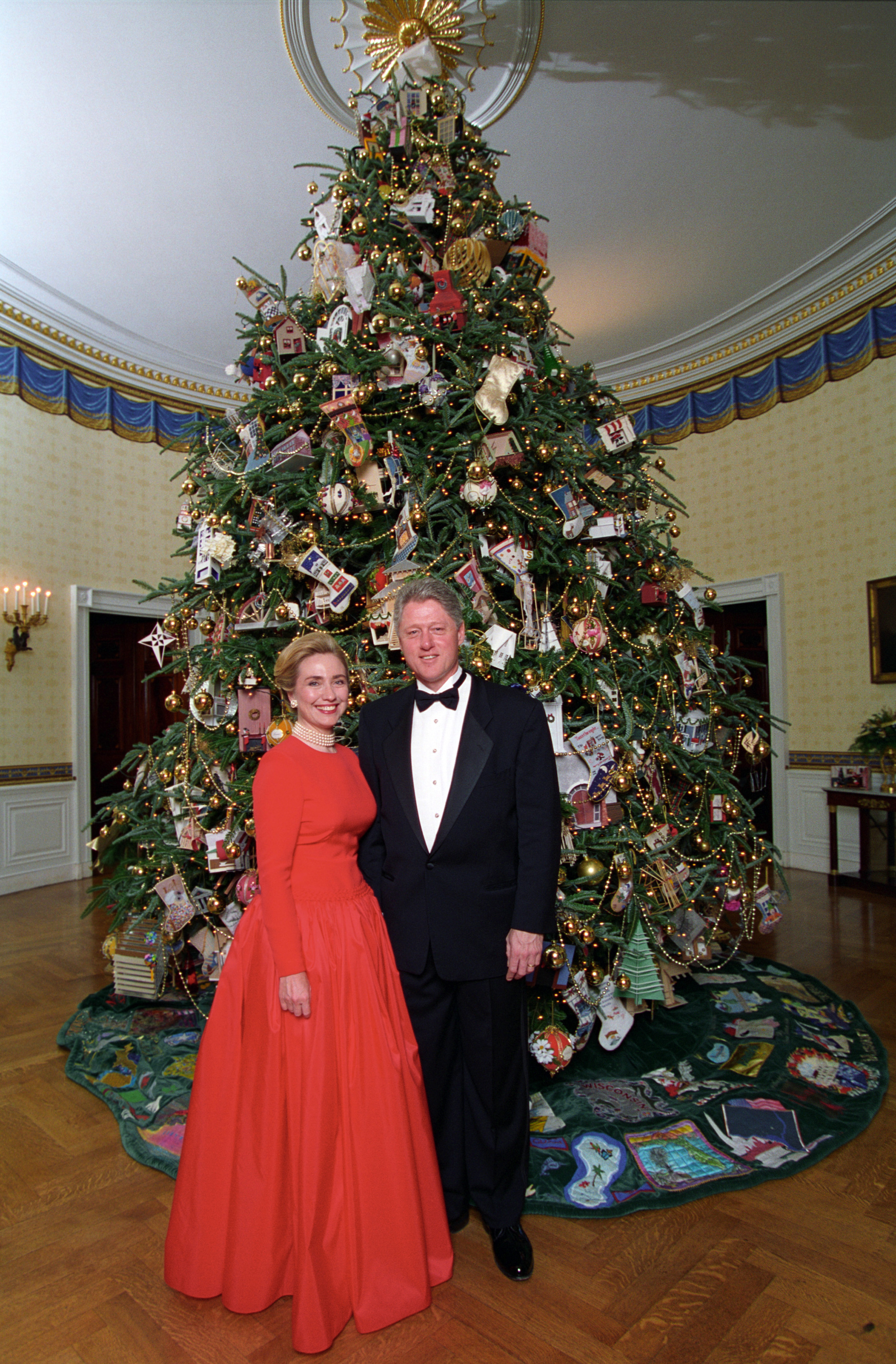 President Clinton and Hillary Rodham Clinton posing next to the 1995 White House Christmas tree for their official Christmas portrait